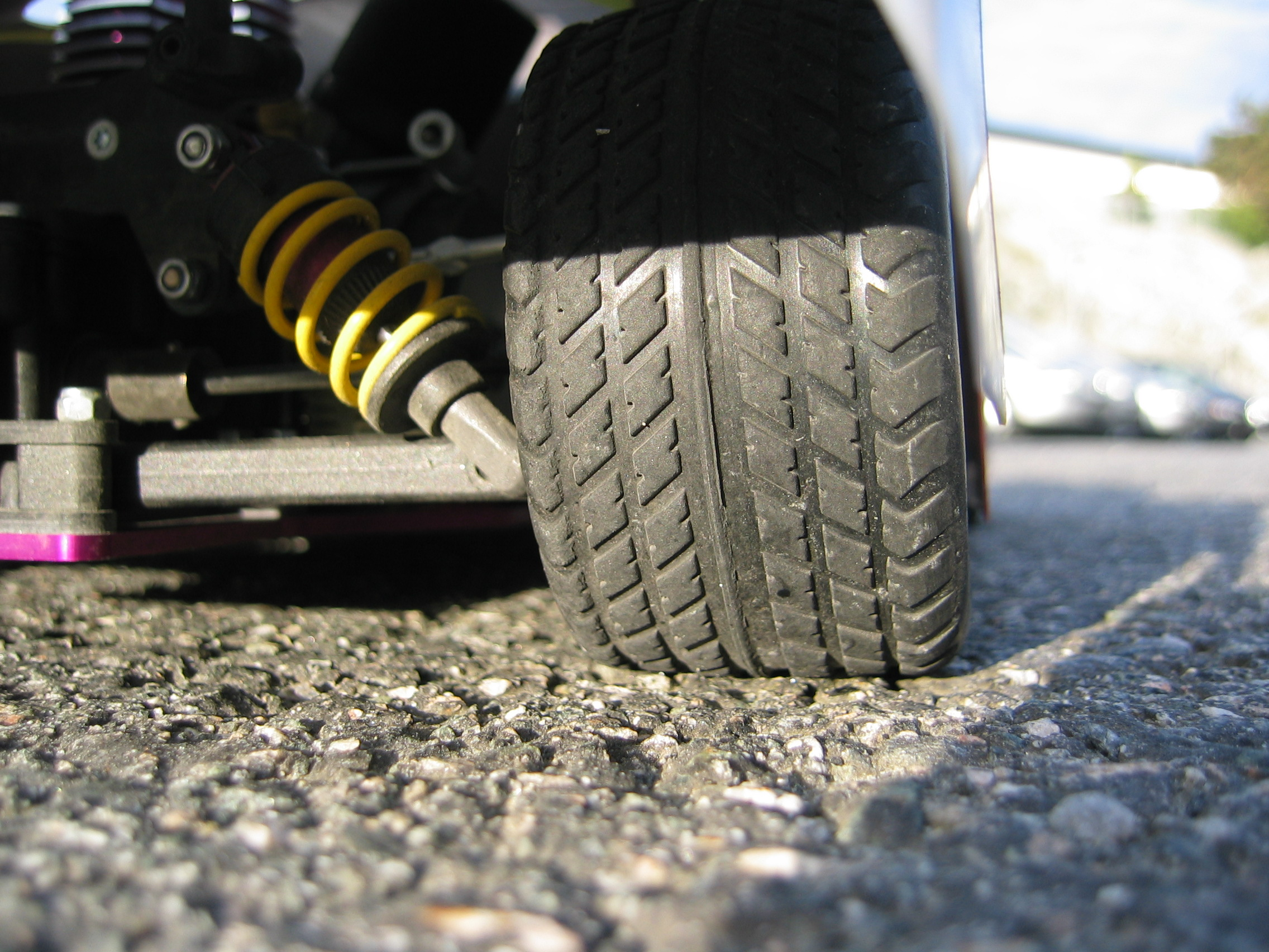 A 100% stock Schumacher Menace GTR, showing the rear right 43x77 mm threaded rubber tire, the right side of the suspension, damper (purple) and spring (yellow) are also visible.